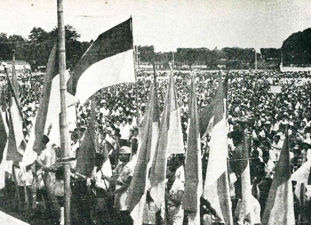 Youth congress in North Alun-Alun of Yogyakarta